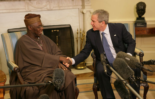 President George W. Bush welcomes Nigerian President Olusegun Obasanjo to the Oval Office Wednesday, March 29, 2006.